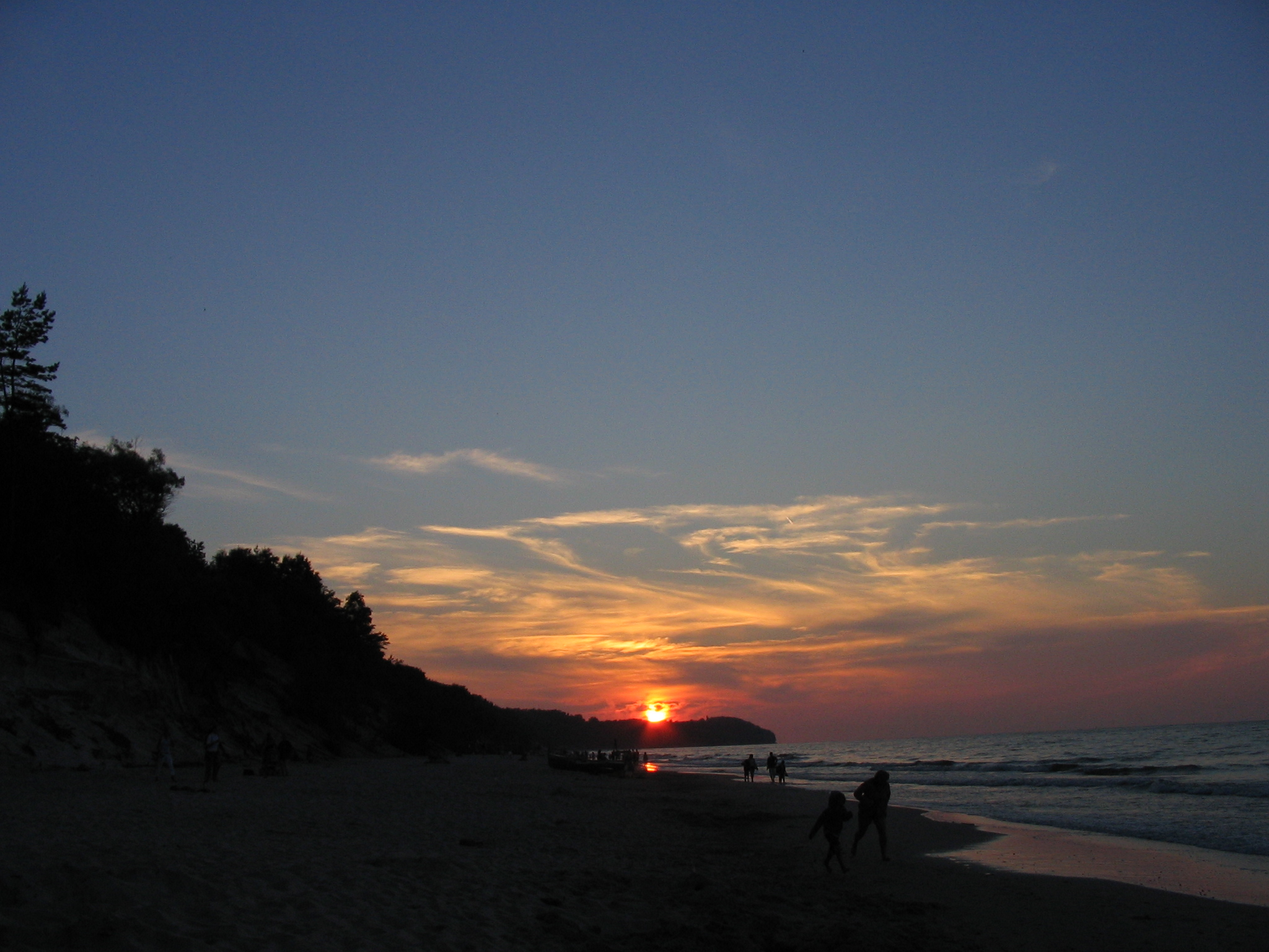 Sunset over Rozewie Cape, a view from beach in Wladyslawowo, Poland, 2005 yr. Camera: Canon PowerShot A75.